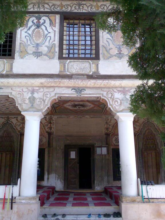 Tetovo, Republic of Macedonia